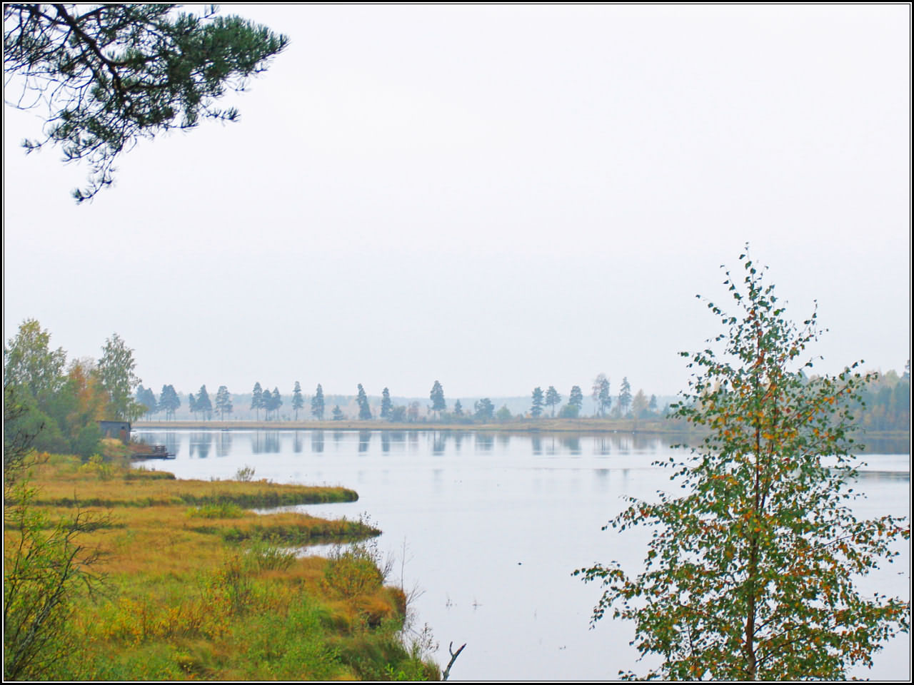 The lake Nelgomozero (see the village Nelgomozero).